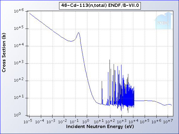 The Cd-113 total cross section from ENDF/B-VII. Obtained from the National Nuclear Data Center at Brookhaven National Laboratory.